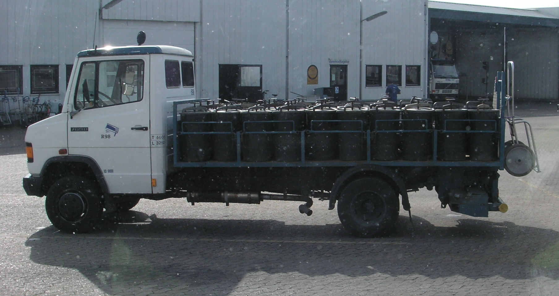 "The chocolate car", from the danish municipal waste company R98. The name comes from the waste colour; the truck handles toilet bins. Mercedes-Benz 709D, total weight 6600 Kg, load 3250 Kg, mounted with hydraulic lift at rear.